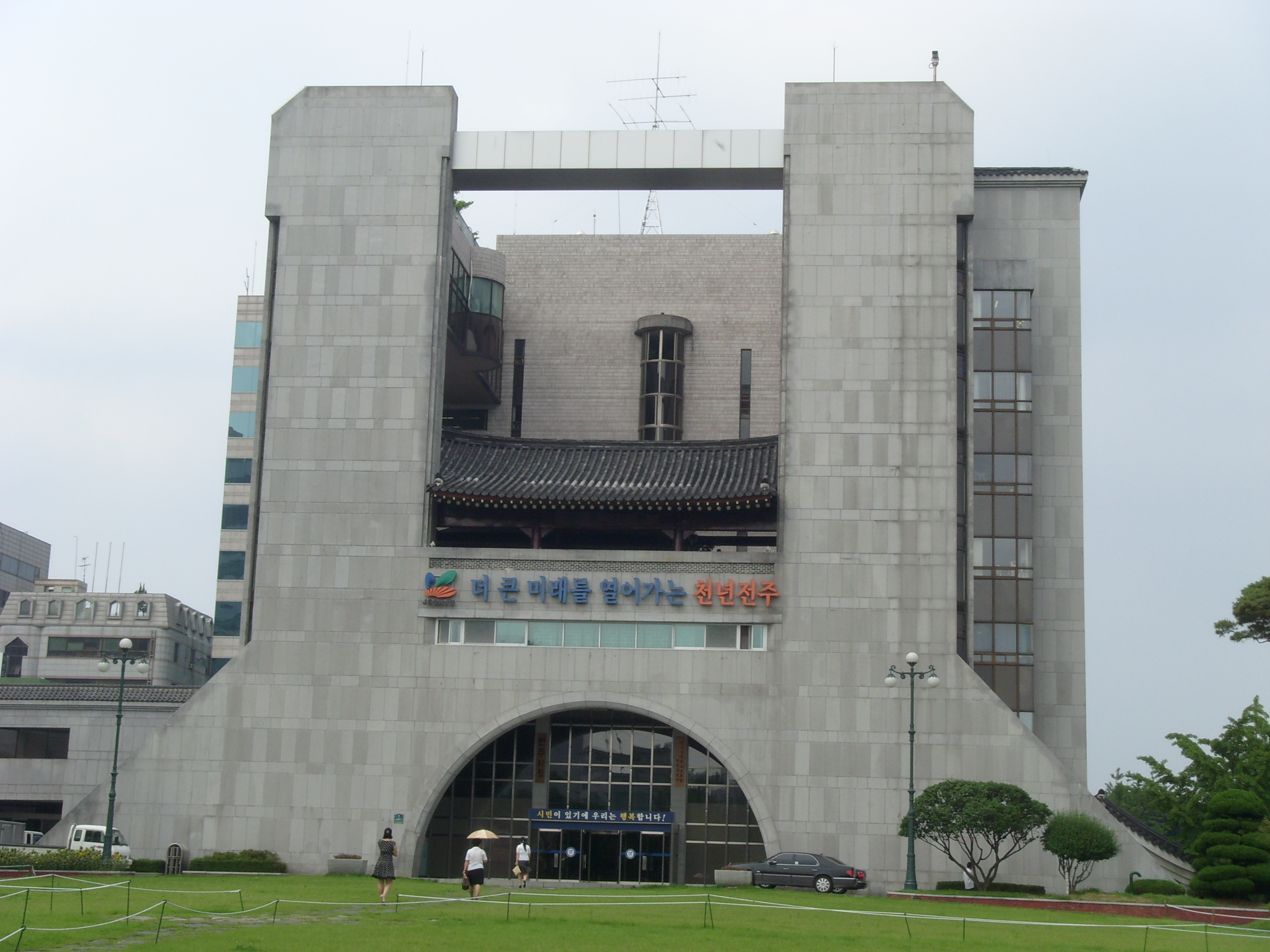 Jeonju city hall